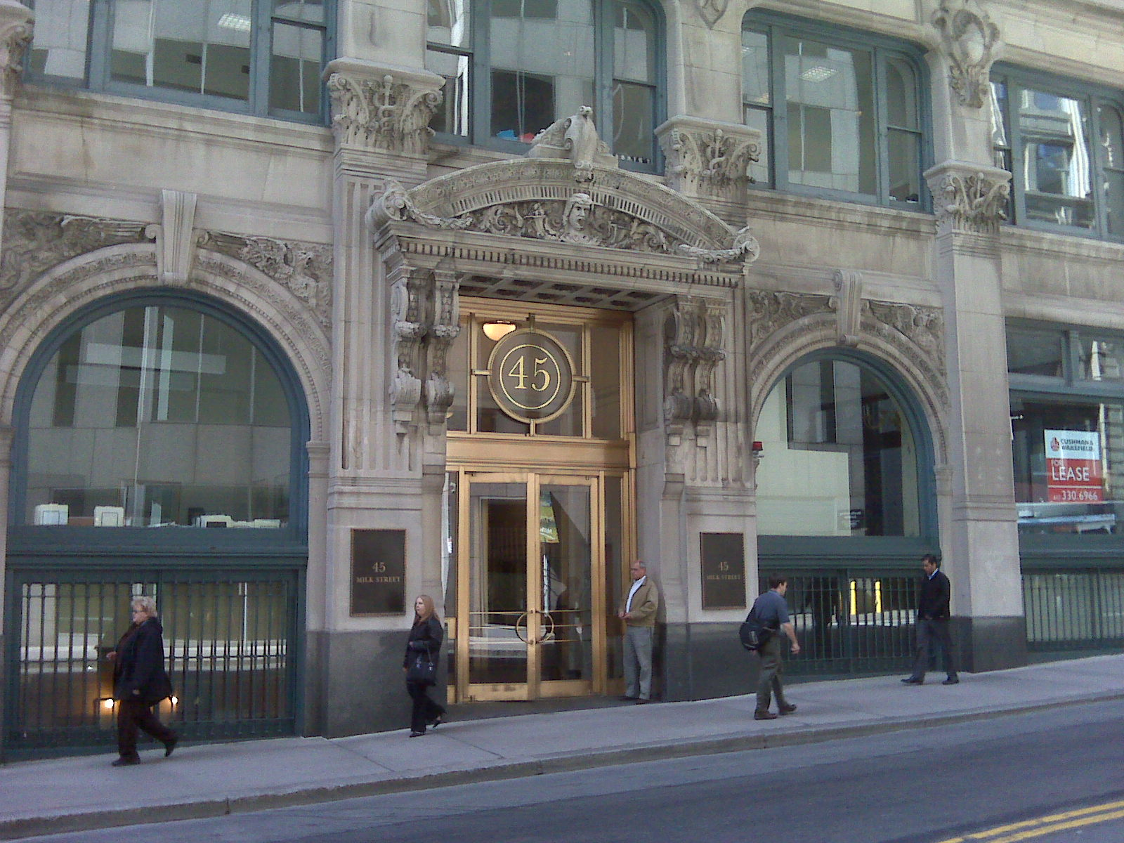 Photograph of the entrance to the International Trust Company Building at 45 Milk Street in Boston, Massachusette, listed on the National Register of Historic Places.